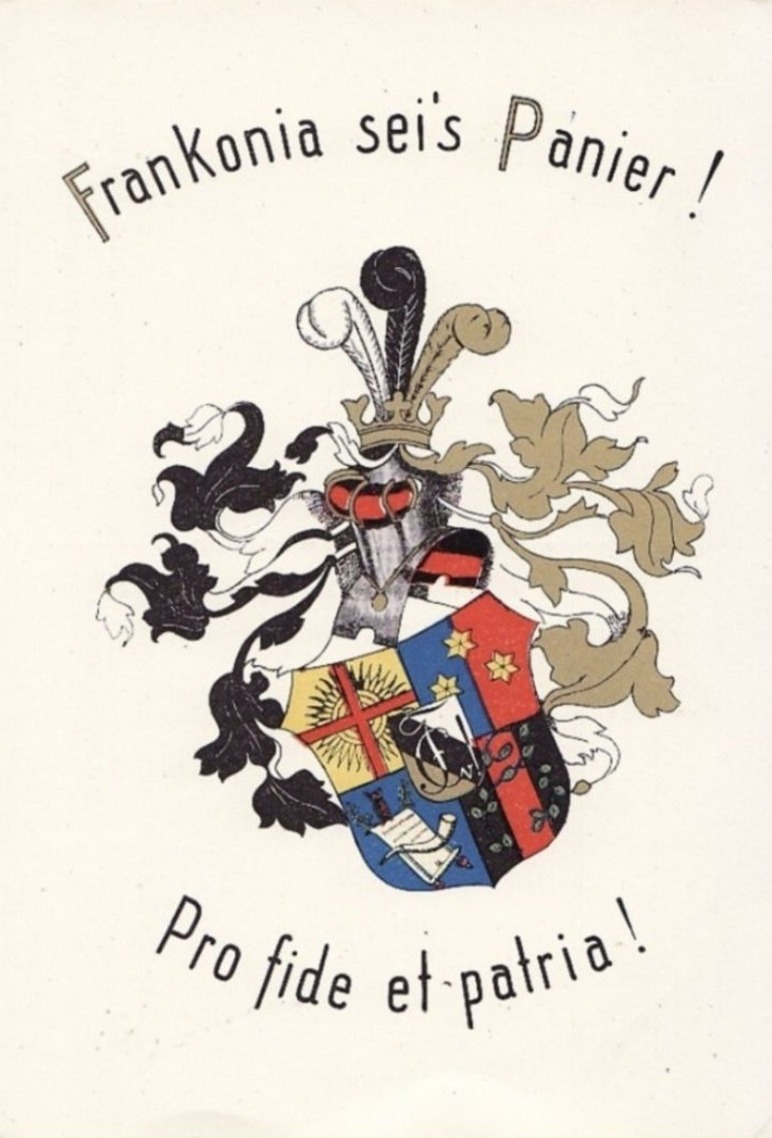 Coat of Arms of Frankonia Czernowitz